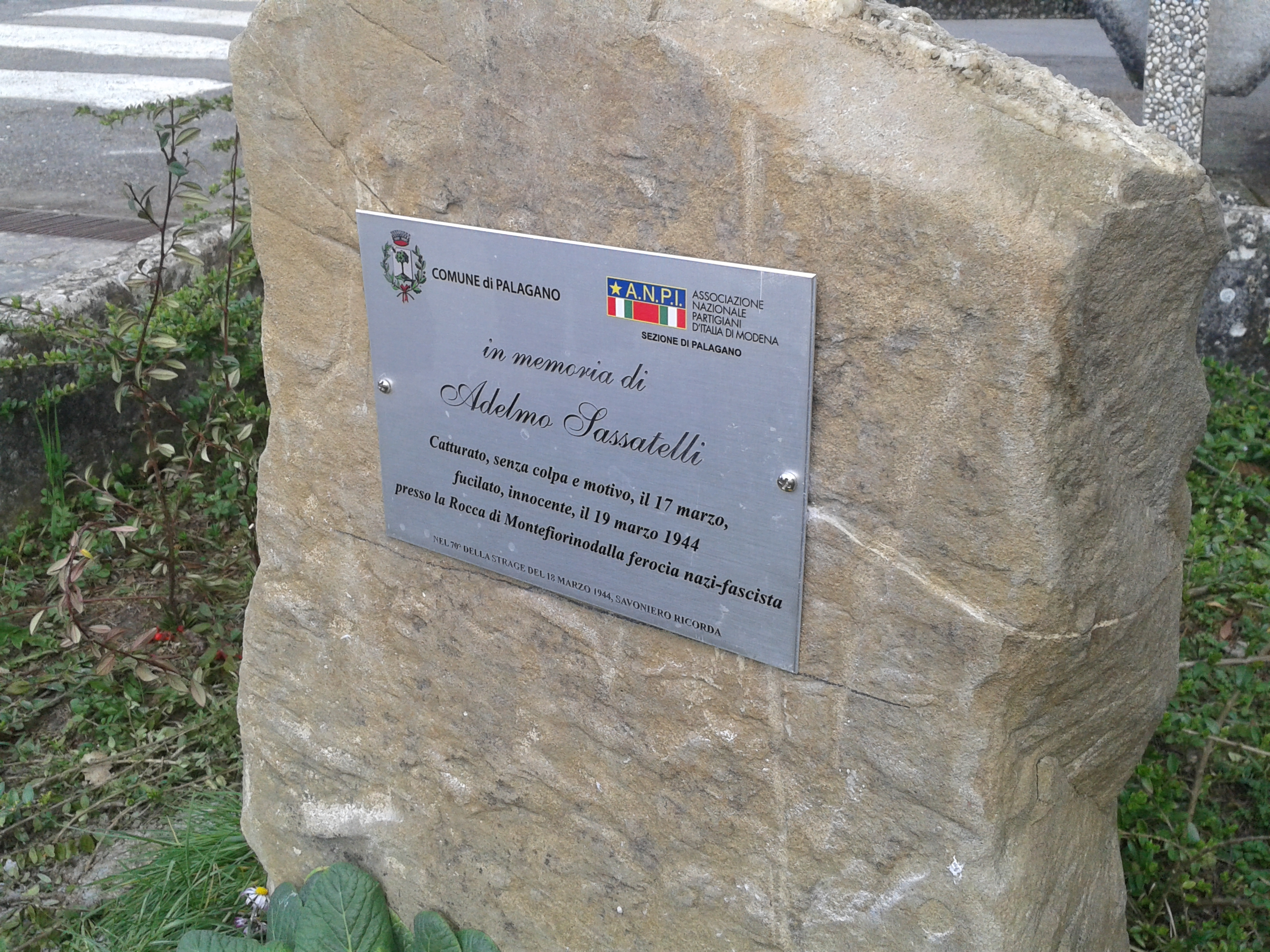 Plaque in memory of Adelmo Sassatelli, plant on March 16, 2014 at Savoniero fraction of Palagano (Mo), on the occasion of the celebration of the seventieth anniversary of the Nazi massacre of Monchio, Costrignano and Susano which killed 136 civilians on March 18, 1944. The inscription reads "In memory of Adelmo Sassatelli. Caught without fault and reason, on March 17, shot, innocent, on March 19, 1944 at the Castle of Montefiorino by the ferocity of the Nazi-fascist. In the seventieth anniversary of the massacre of March 18, 1944 , Savoniero remember him."